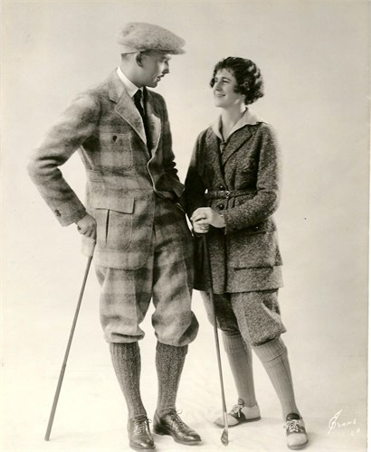 Screenwriter husband-wife duo Rex and Irma Taylor c1915